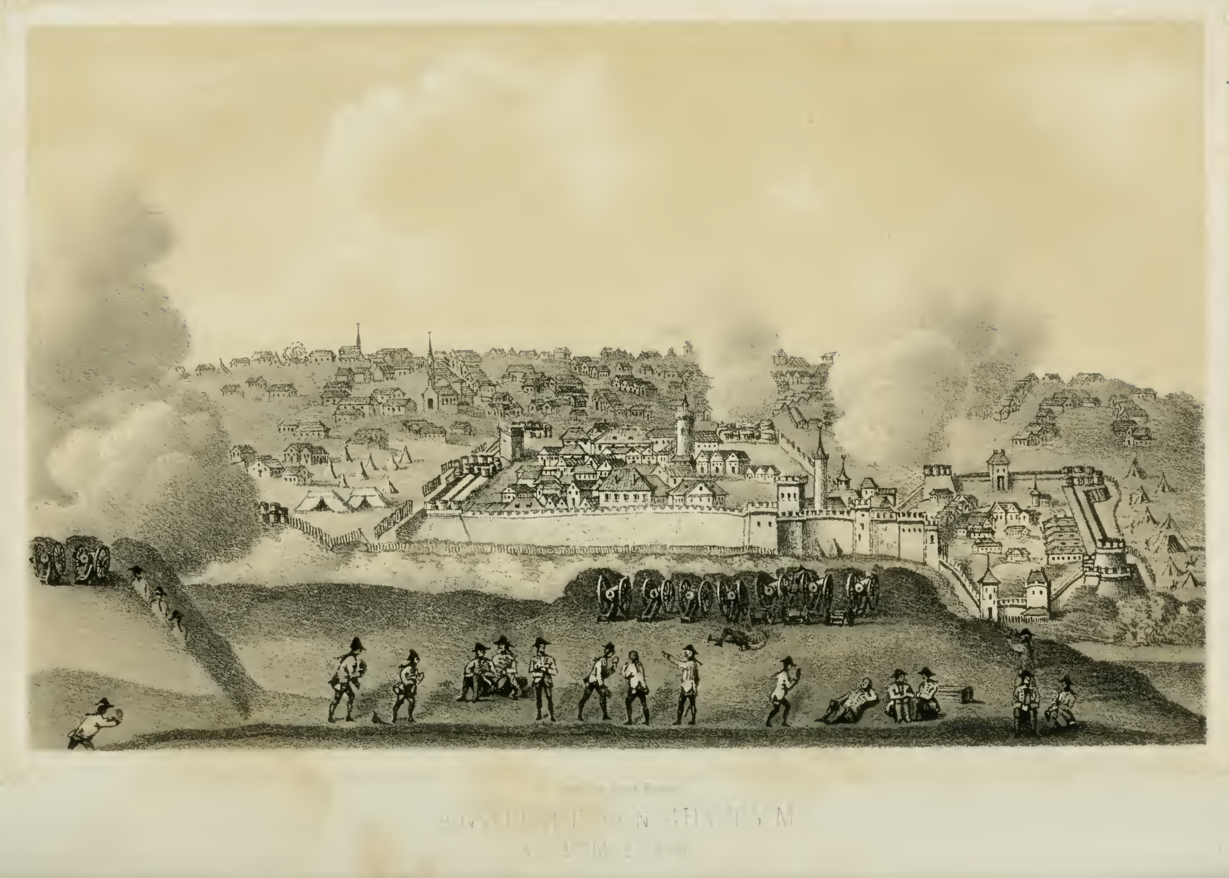 Battle of Khotyn 1788